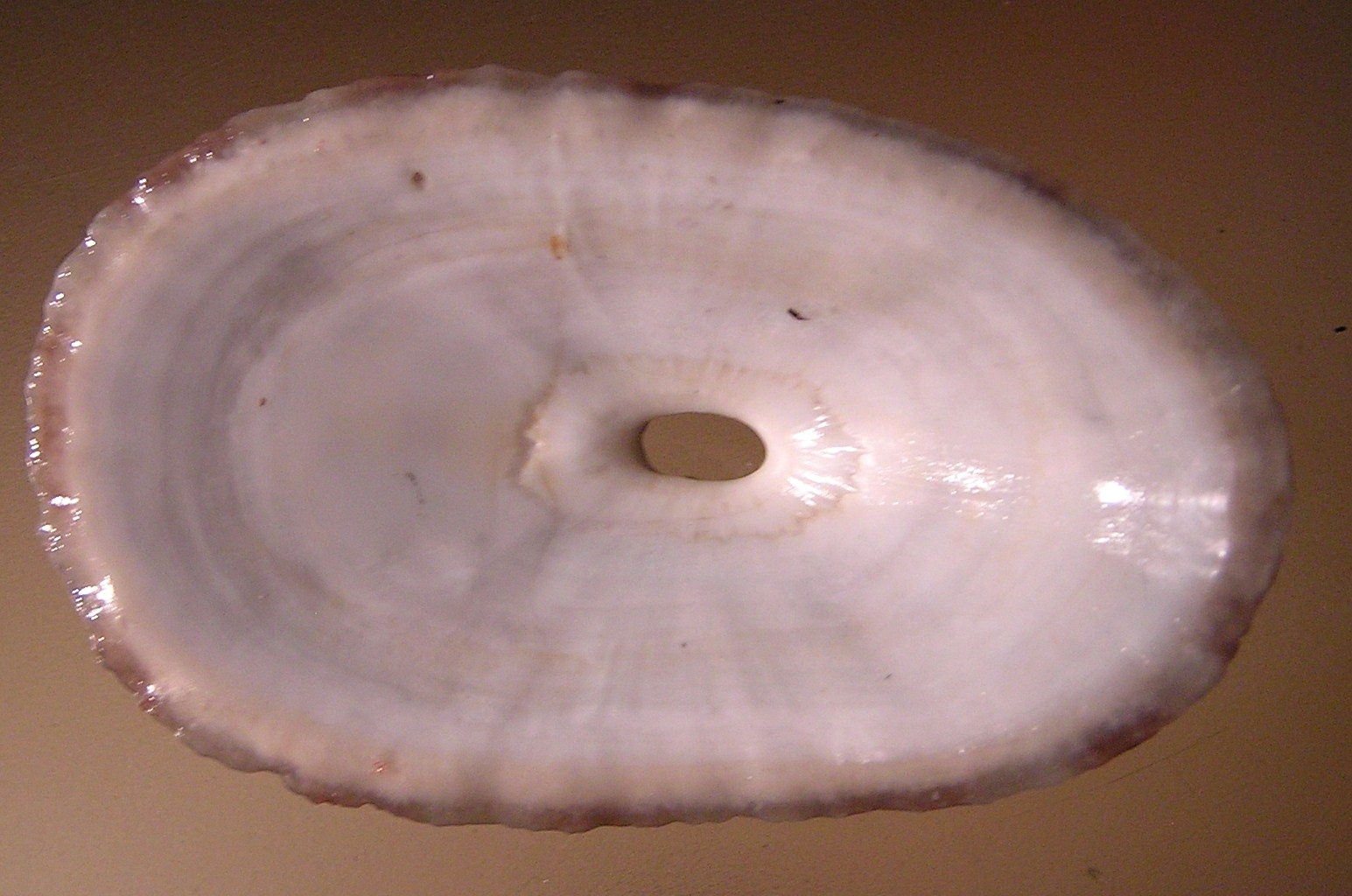 Fissurella maxima, Sowerby, 1835; a keyhole limpet from the family Fissurellidae; Chile